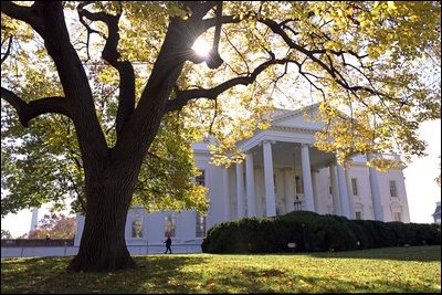 Washington D.C., White House, North